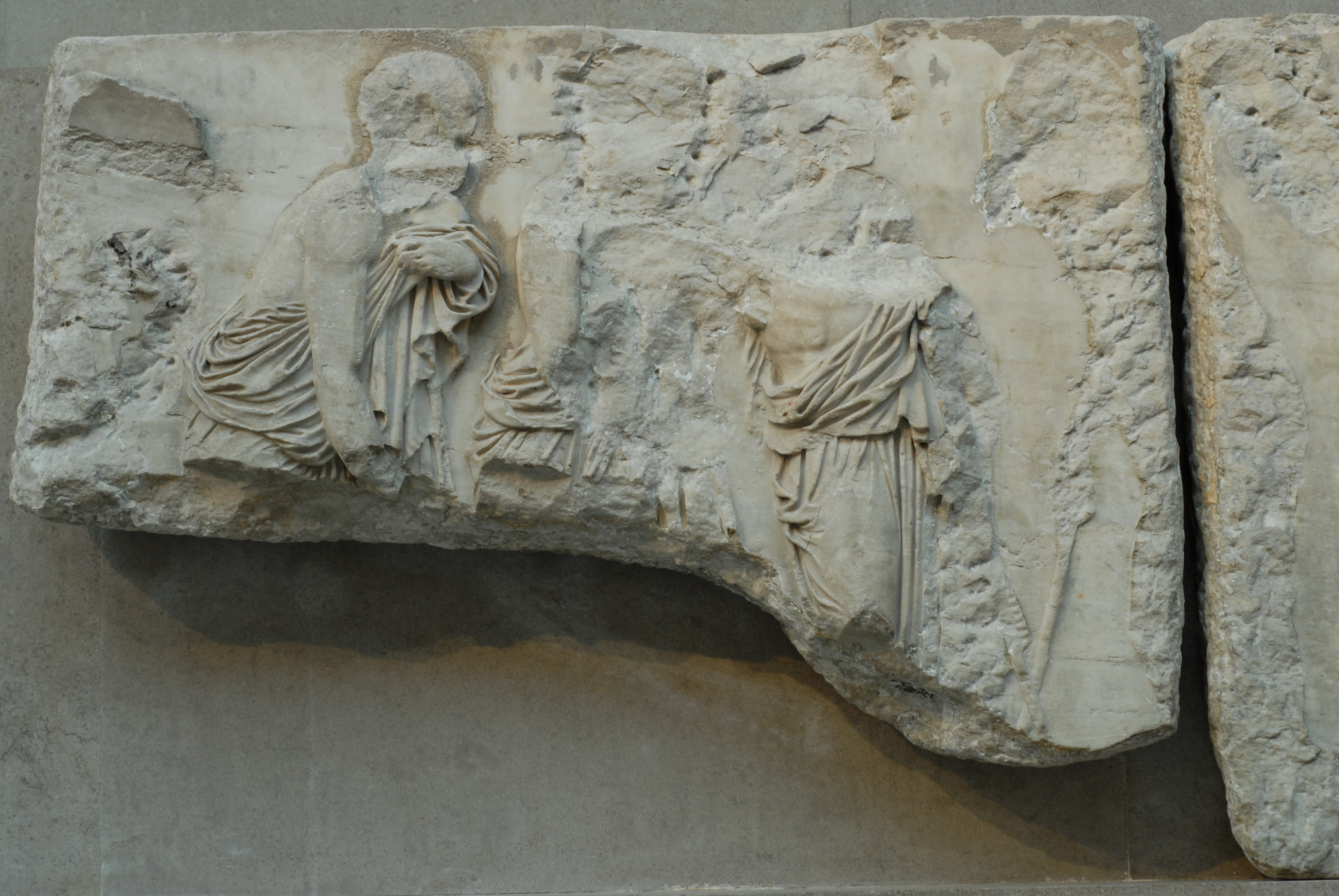 Eponymous heros or archons. Block VI from the east frieze of the Parthenon, ca. 447–433 BC.